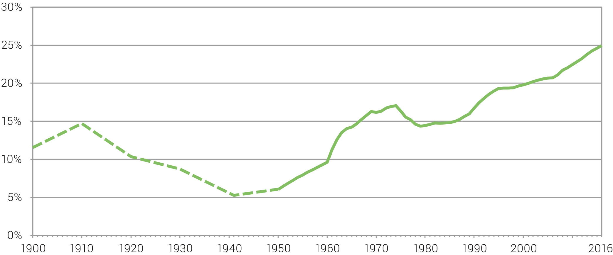 Switzerland, permanent foreign residents as % of total population, 1900-2016